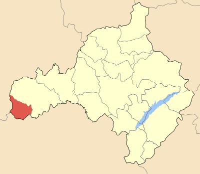 Locator map of Pentalofou community (Κοινότητα Πενταλόφου) at Kozanis perfecture, Greece.